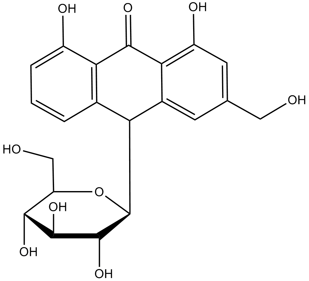 The structure of aloin. Made with Chemdraw